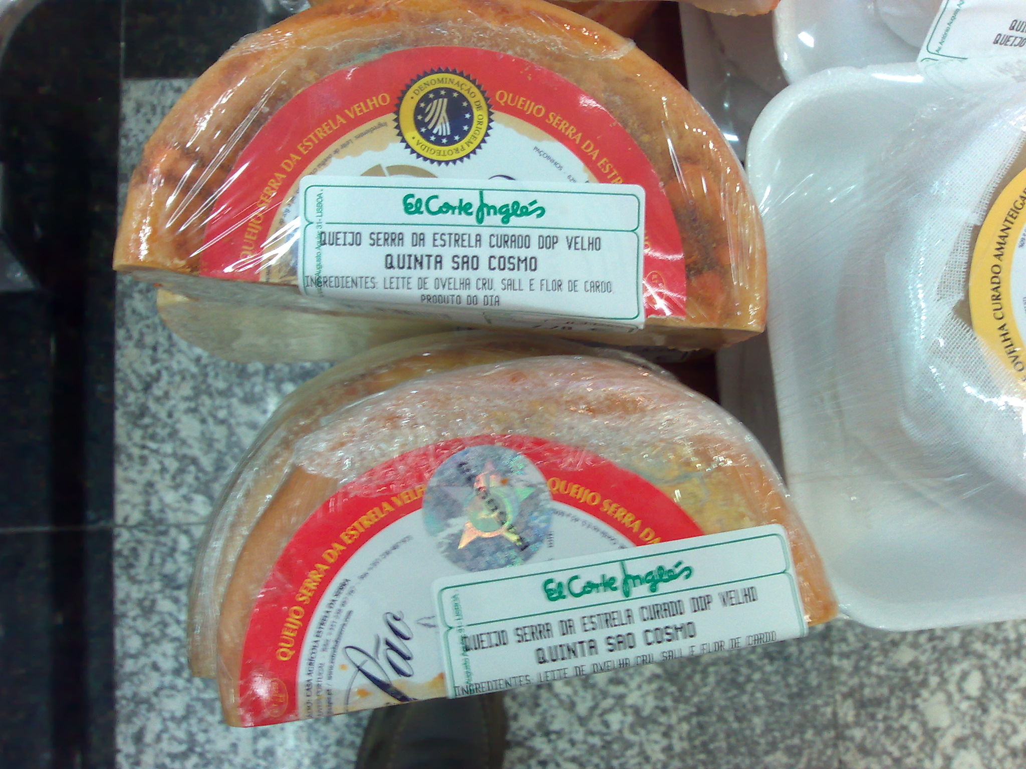 Cured Serra da Estrela cheese, from Portugal.